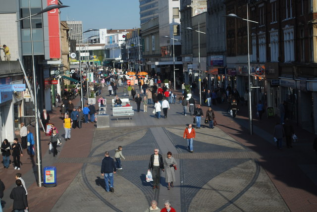 Southend high street Looking north from the railway bridge